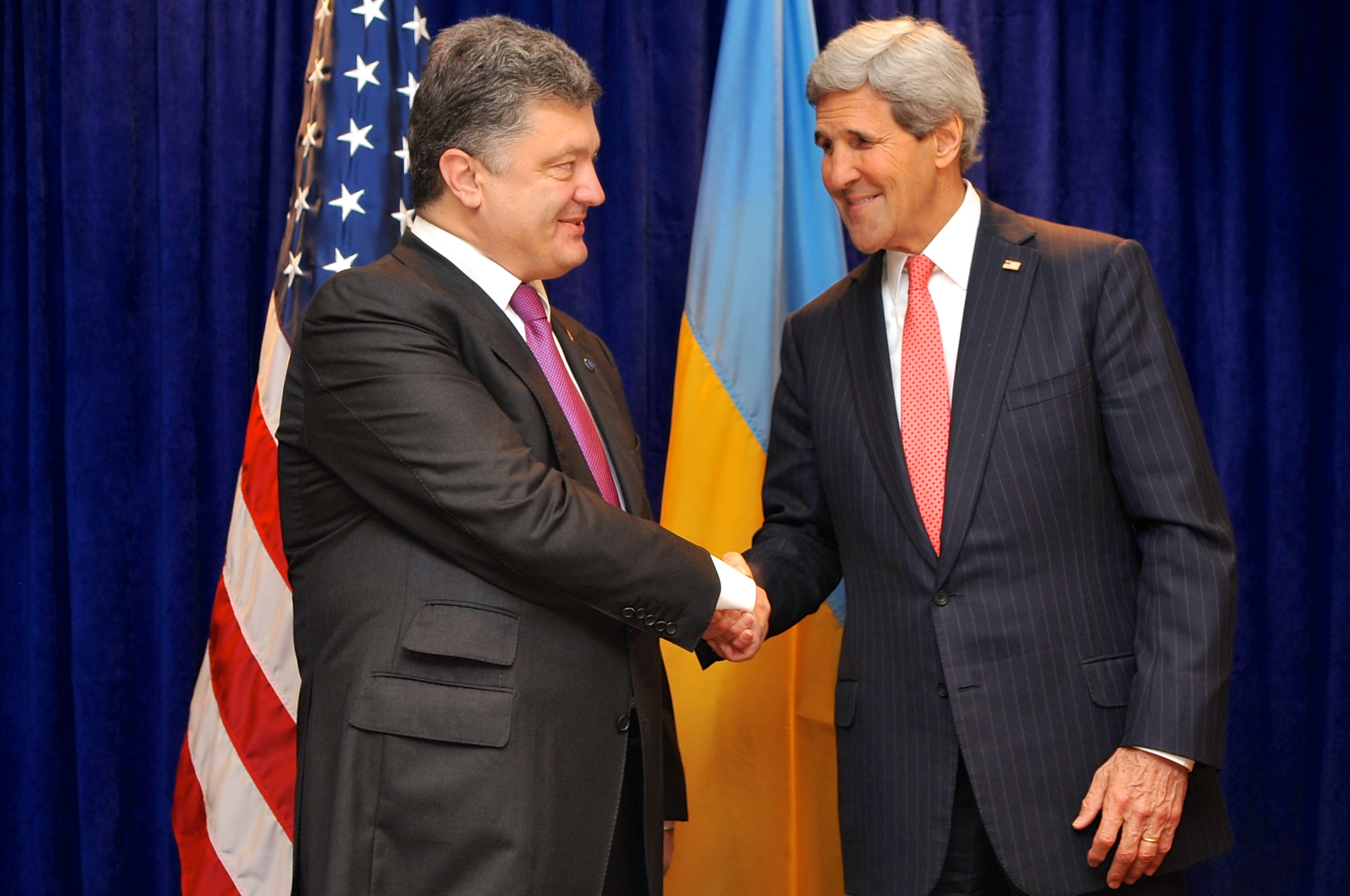 U.S. Secretary of State John Kerry and Ukrainian President-elect Petro Poroshenko shake hands after addressing reporters before a discussion that preceded Poroshenko's meeting with President Obama in Warsaw, Poland, on June 4, 2014. [State Department photo/Public Domain]